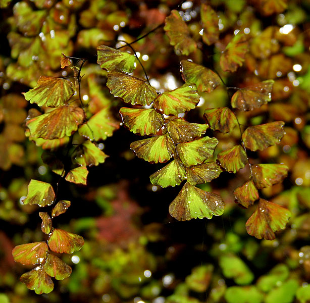 Adiantum lunulatum- 'Rajhans' 'राजहंस' / Ratkombada' 'रातकोंबडा' in Marathi- in Goa, India.